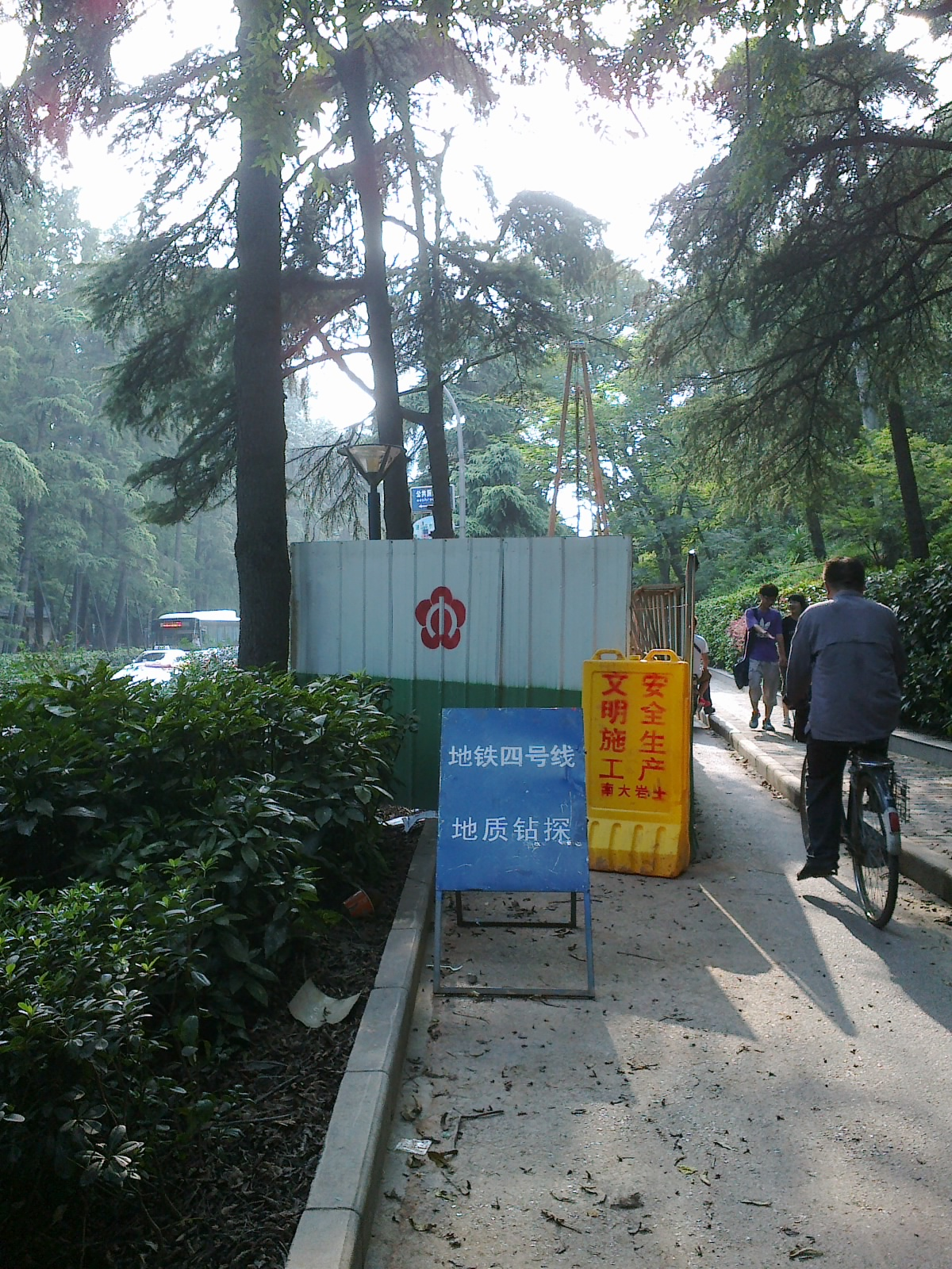 The initial construction ofNanjing Metro Line 4